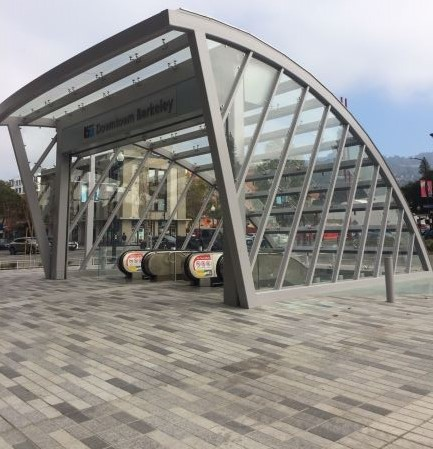 Main entrance of the new Downtown Berkeley BART Plaza.